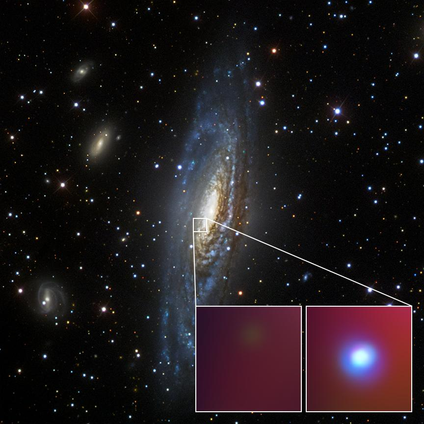 This visible-light image from the Sloan Digital Sky Survey shows spiral galaxy NGC 7331, center, where astronomers observed the unusual supernova SN 2014C . The inset images are from NASA's Chandra X-ray Observatory, showing a small region of the galaxy before the supernova explosion (left) and after it (right). Red, green and blue colors are used for low, medium and high-energy X-rays, respectively. A version of this image without annotations is also available above. See PIA21089 for a related image. For more Chandra images, multimedia and related materials, visit